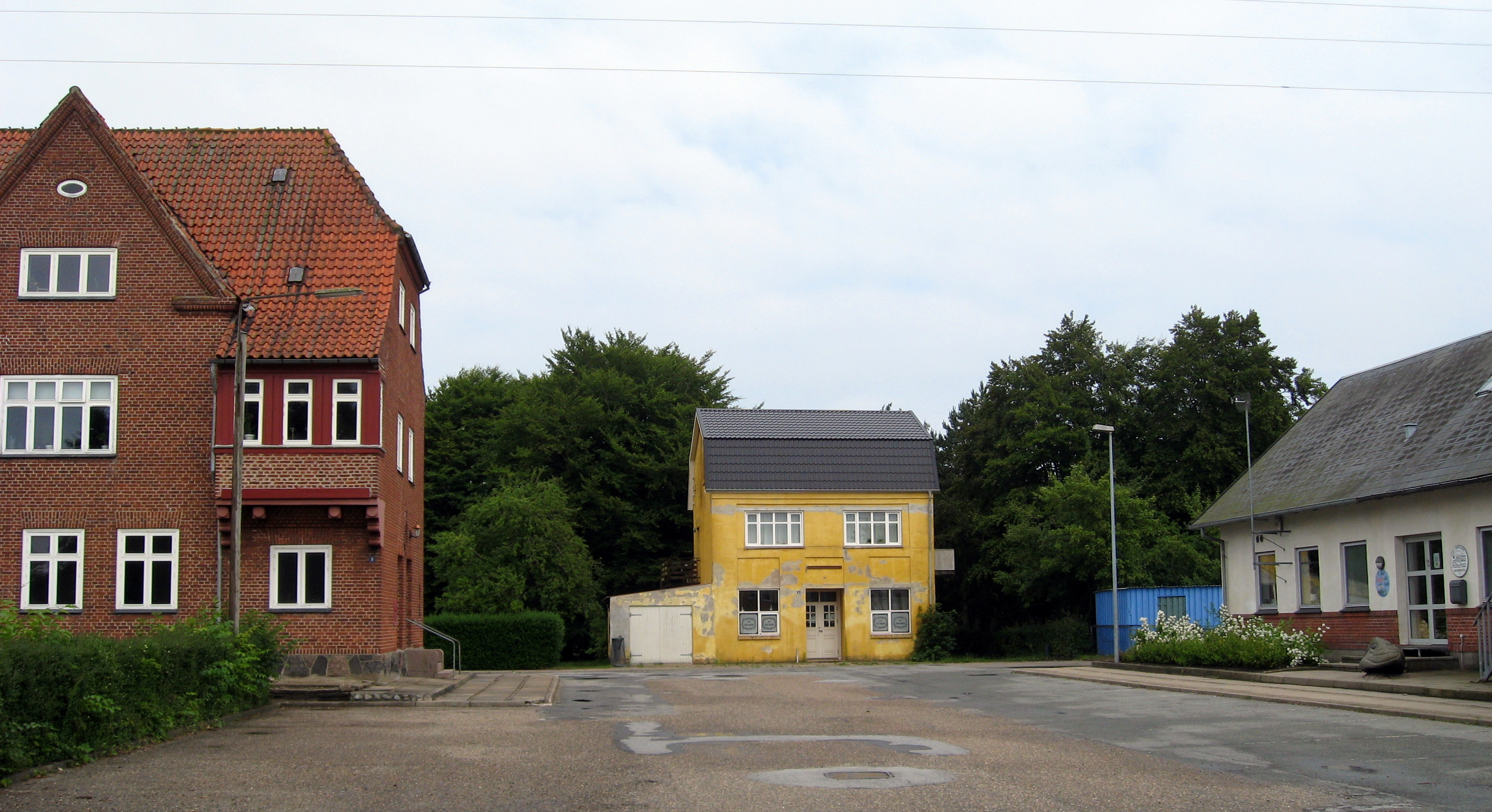 Asaa, a town in northern Denmark - The old post office, the old cinema and the old train station